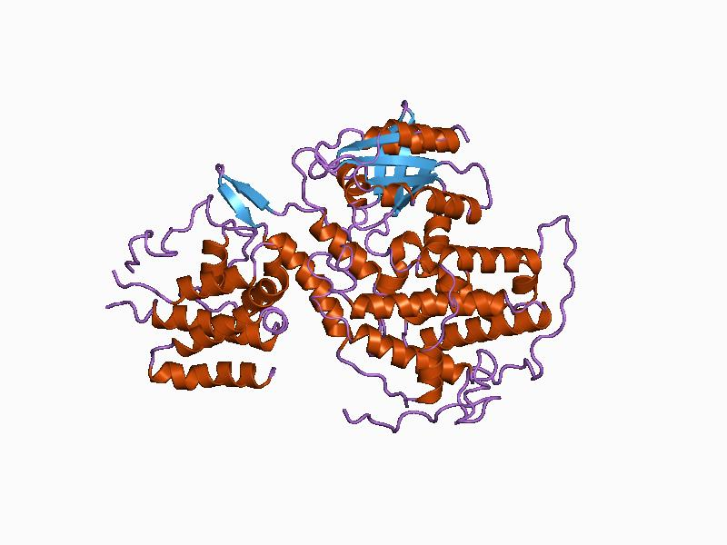 Cartoon representation of the molecular structure of protein registered with 1bkd code.